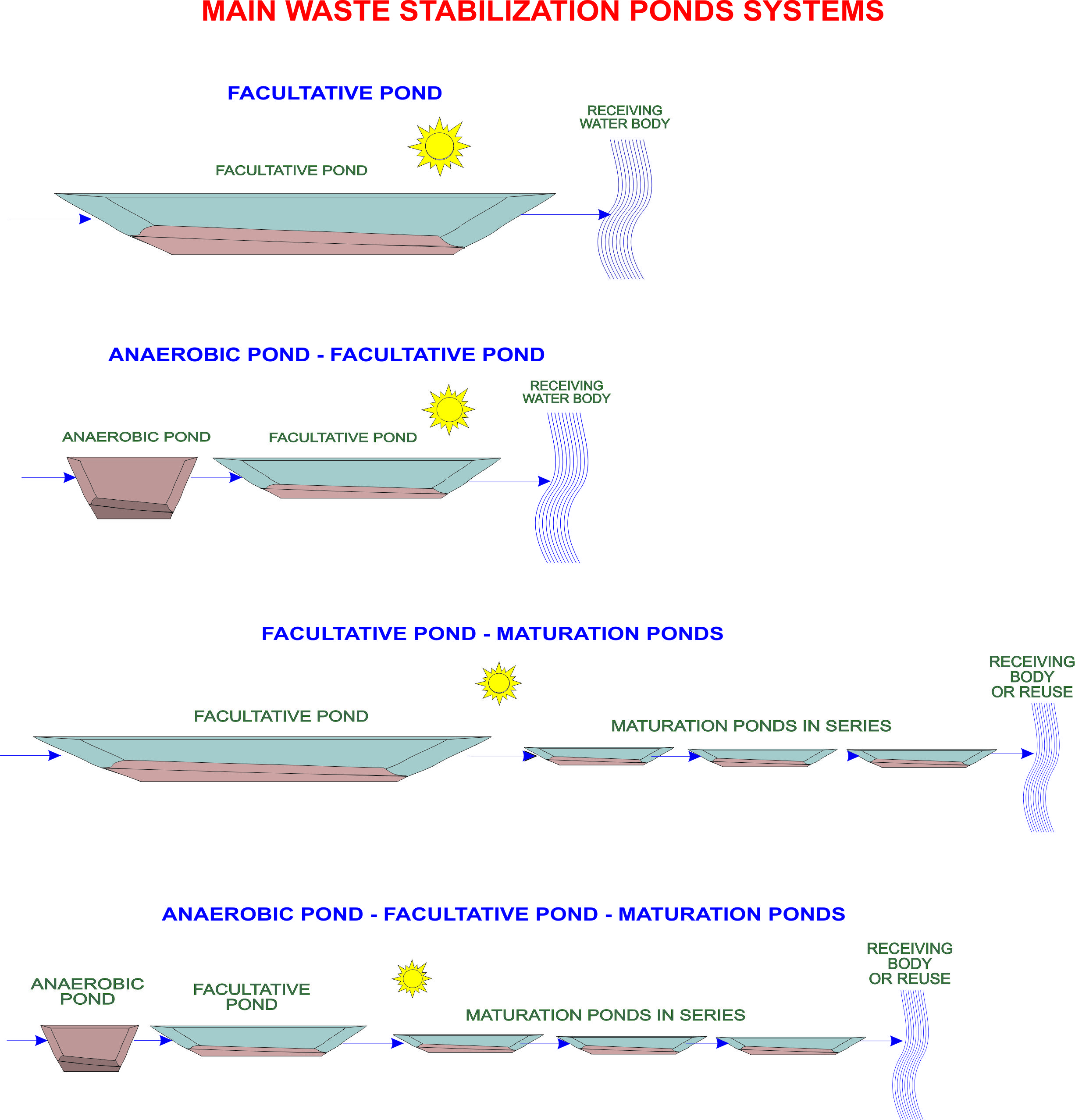 Waste stailization pond configurations